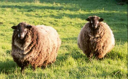 Coloured romney's, photo taken by Sawyer12477.